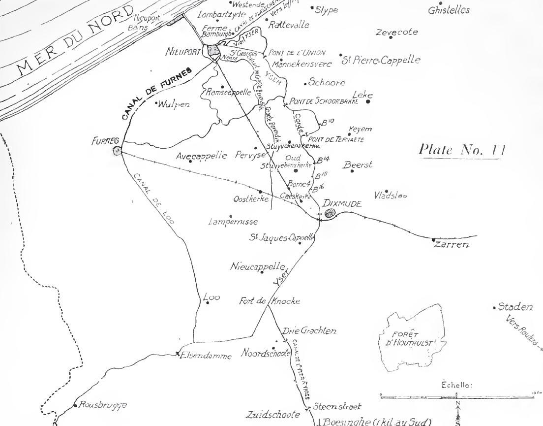 Map of the area of the Battle of the Yser